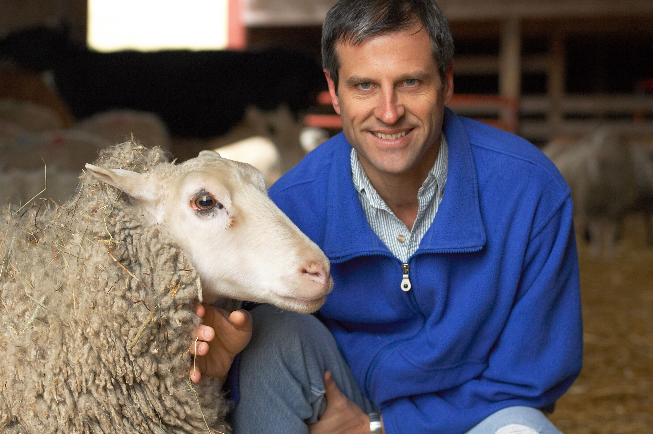 Info: Gene Baur, left, president and co-founder of Farm Sanctuary. Source: Farm Sanctuary photo archives. Photo by Derek Goodwin, Copyright 2007 Derek Goodwin. Used by permission.